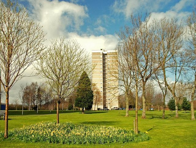 Multi-storey flats, Seymour Hill, Dunmurry (2) See 1222162. This is “Coolmoyne House” – visible in the background of the previous photo. Continue to 1754584 and 1792440.